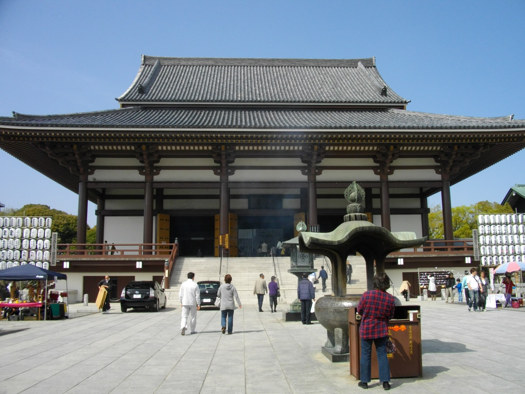 Nishiarai Daishi Main Hall